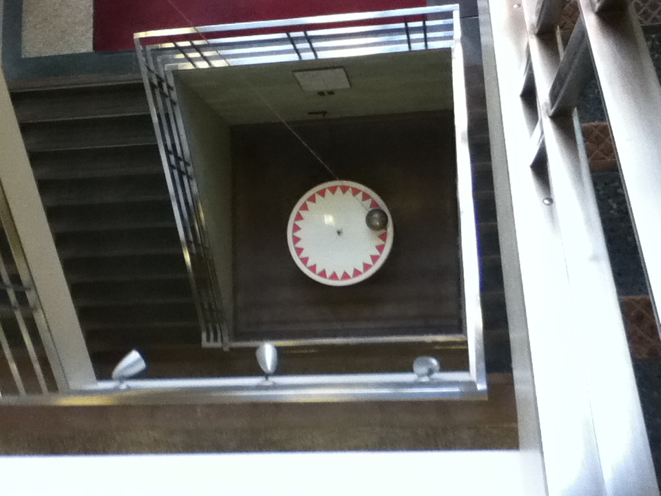 Culler Hall (Miami University) Foucault Pendulum from the third floor.